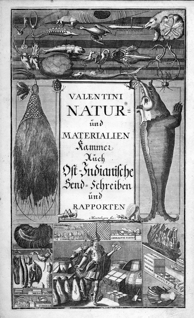 Frontispiz von "Museum Museorum", 2. Auflage 1714